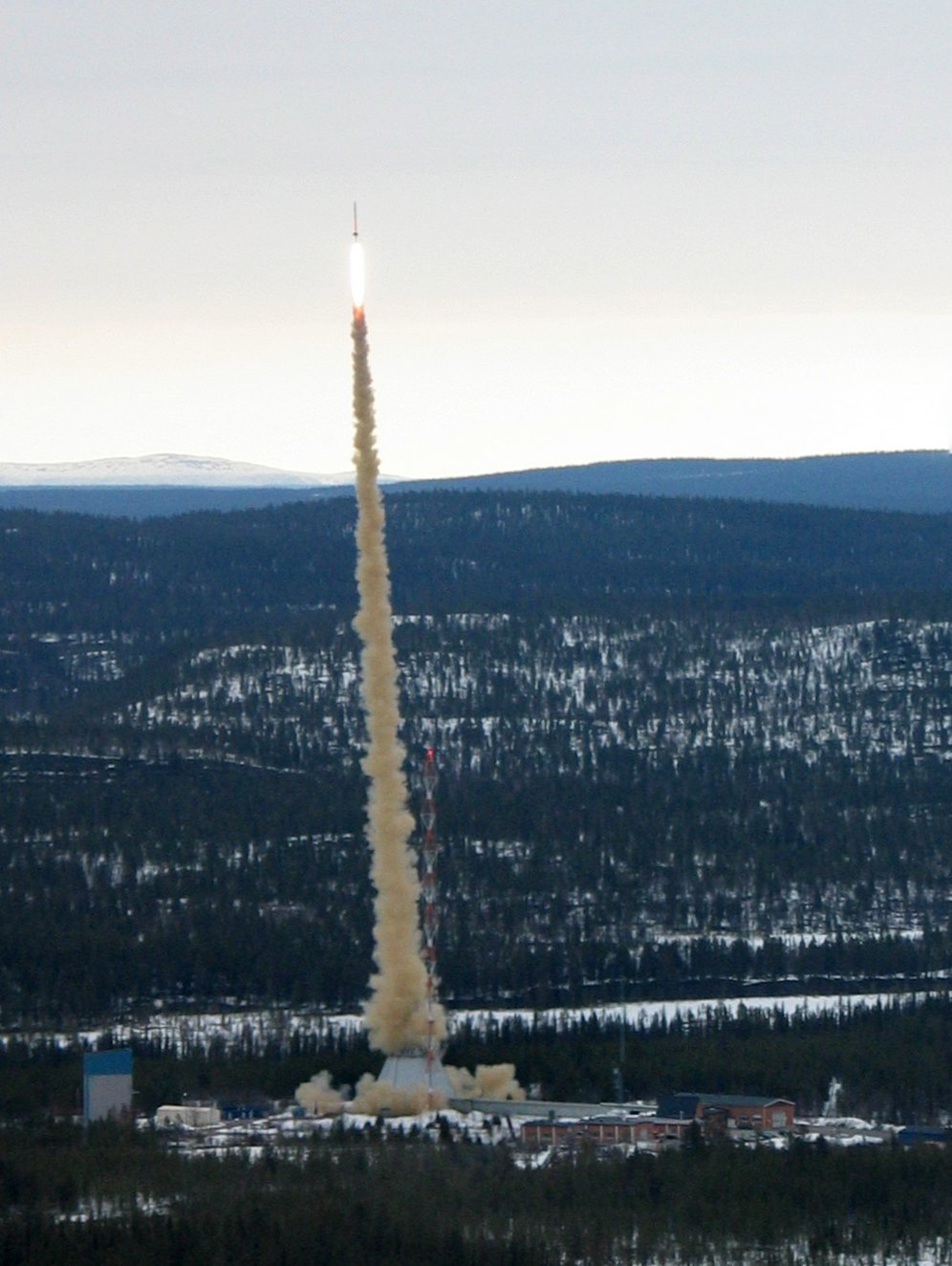 Final launch of Skylark sounding rocket from Esrange, Sweden on May 2, 2005.